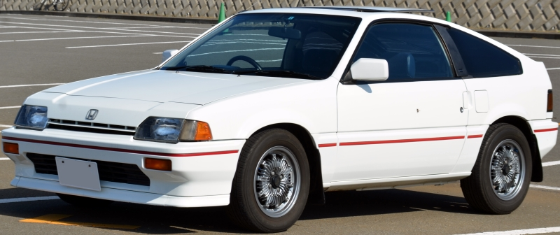 Honda Ballade Sports CR-X 1.5i